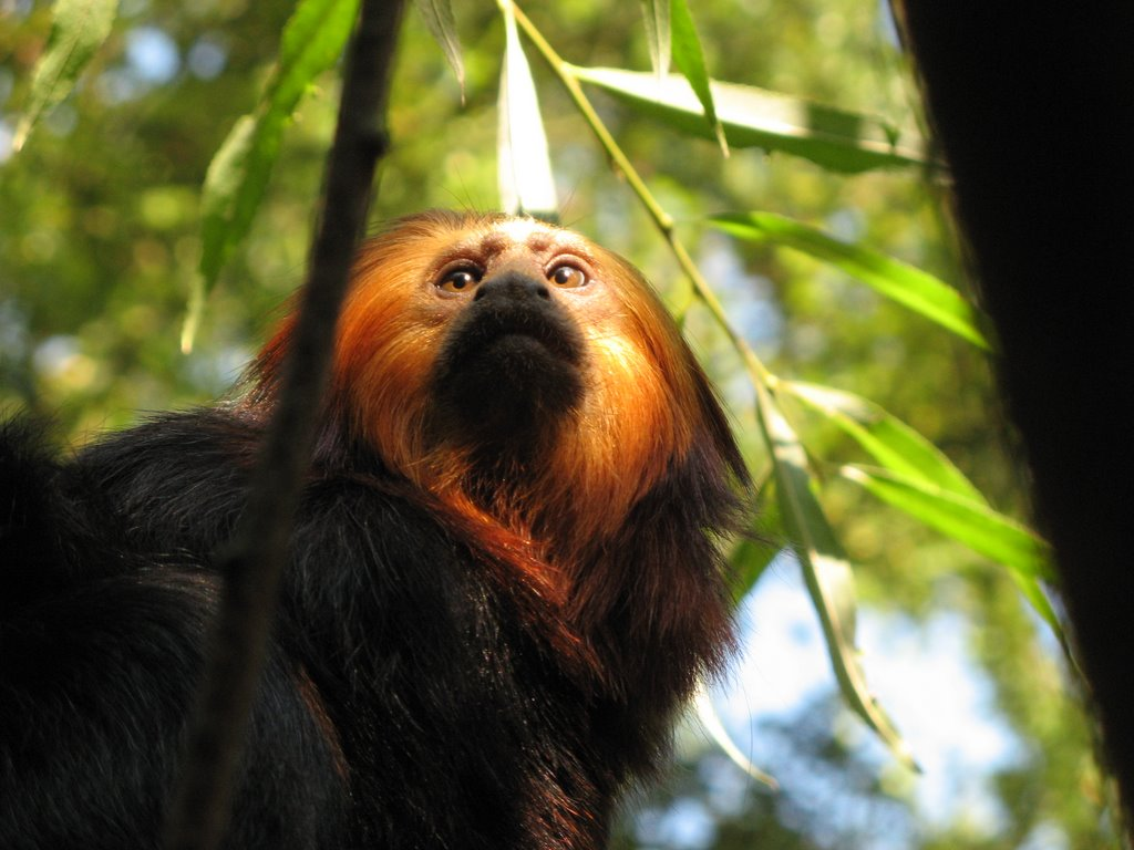 Leontopithecus chrysomelas, Planckendael, Belgium